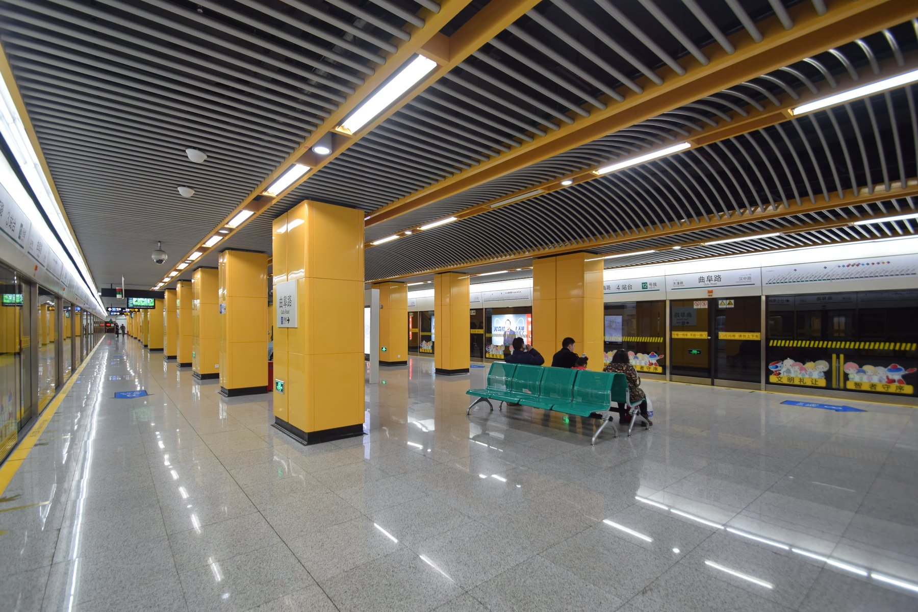 Line 12 Platform of Qufu Road Station, Shanghai Metro